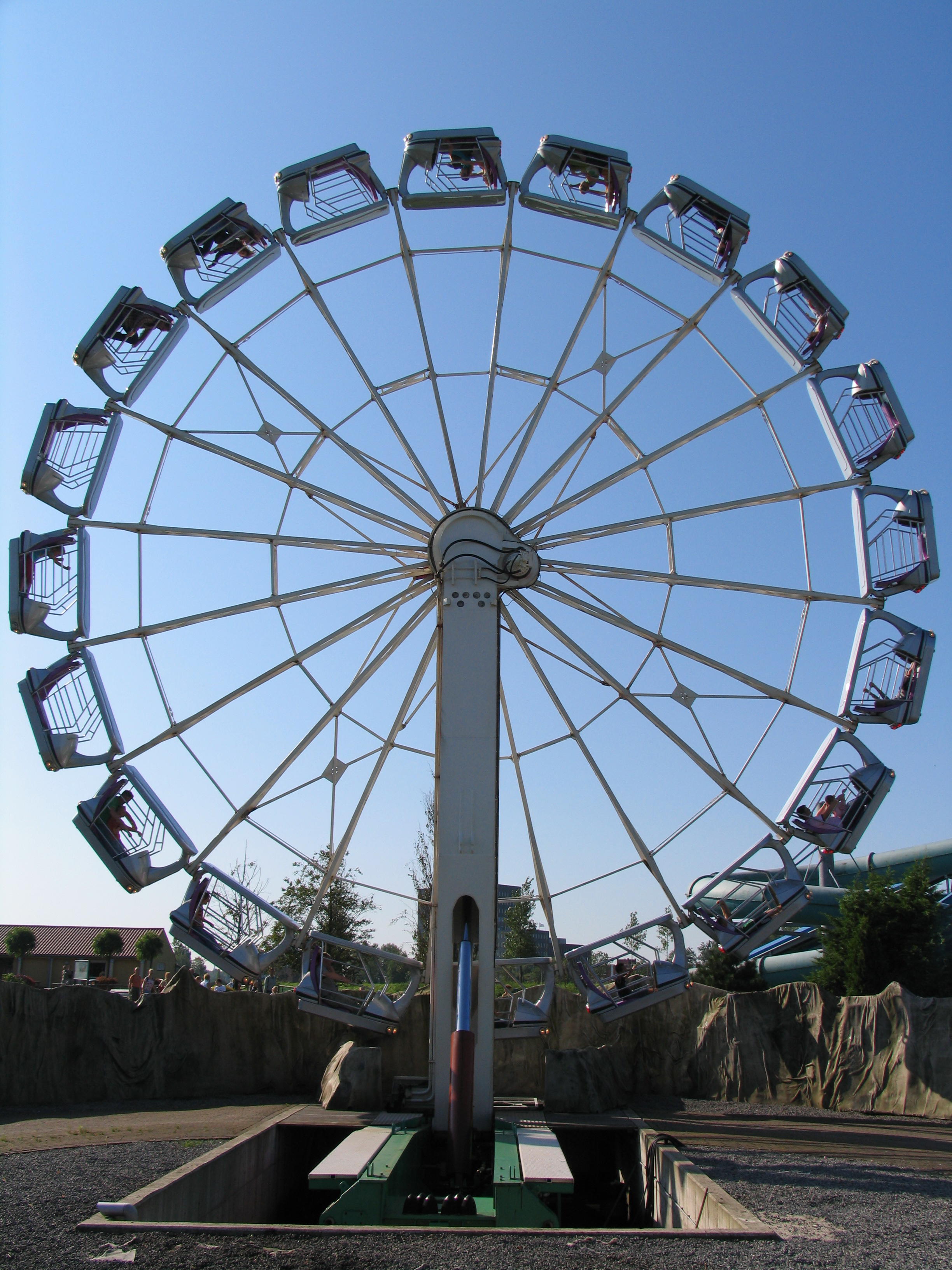 Huss Enterprise at Drievliet Amusement Park, Netherlands